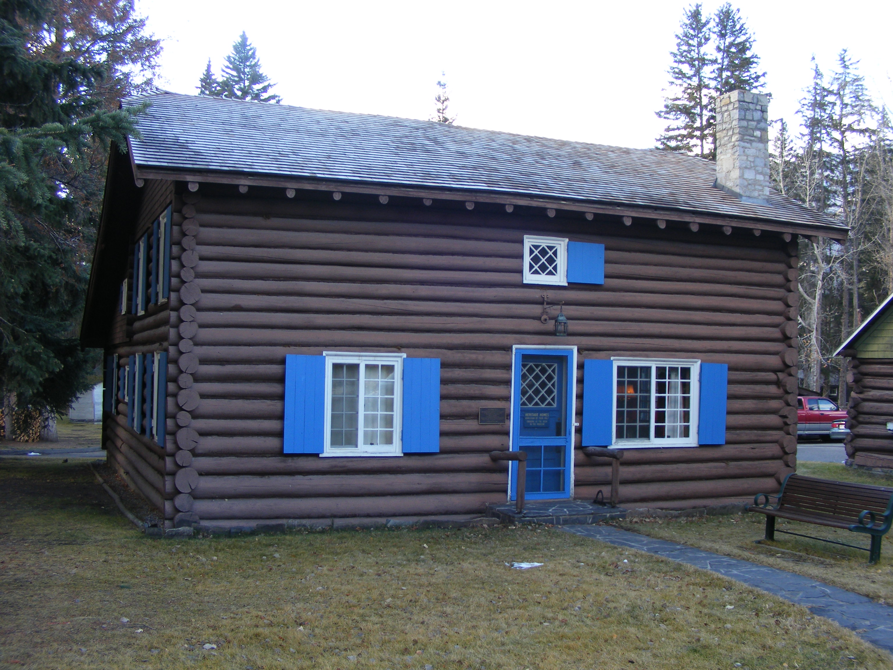 Moore residence, 125 Lynx Street, Banff, Alberta. Location on the Banff historical walking tour.